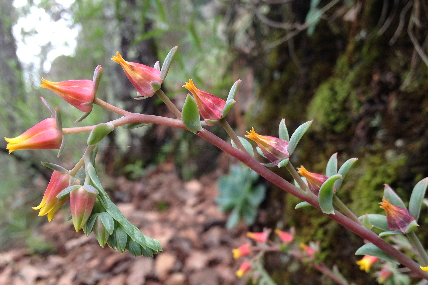 Echeveria secunda is a succulent plant of the stonecrop family Crassulaceae, native of Mexico.